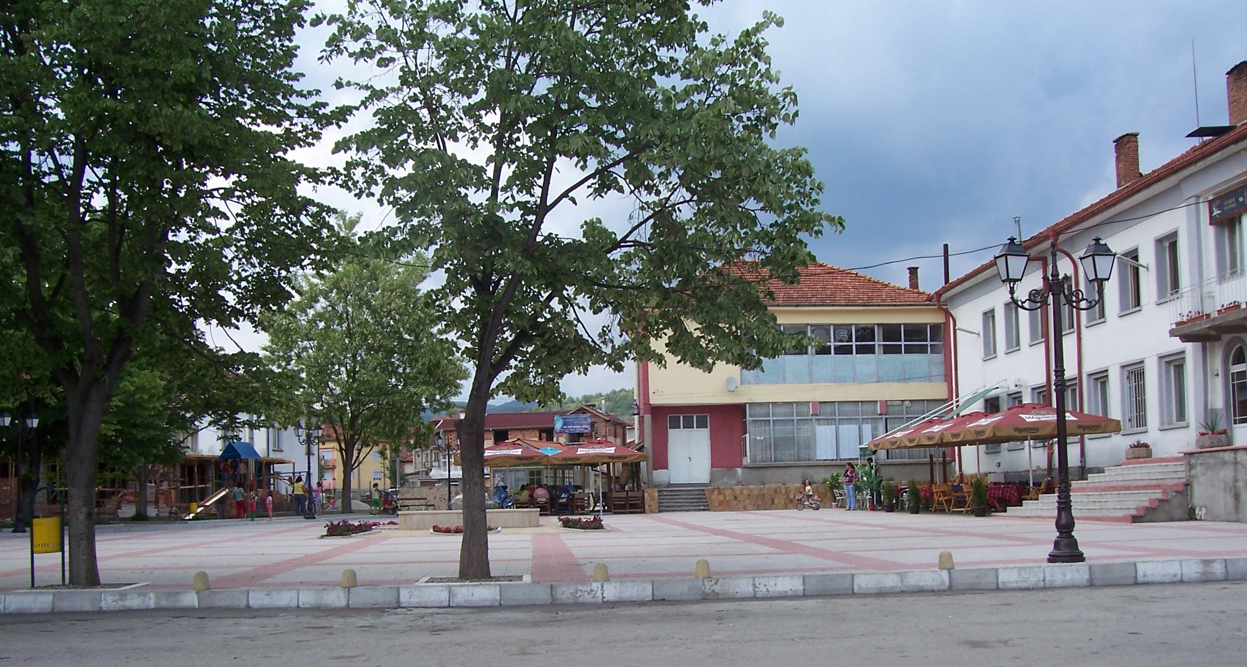 The square of the village of Kochan.